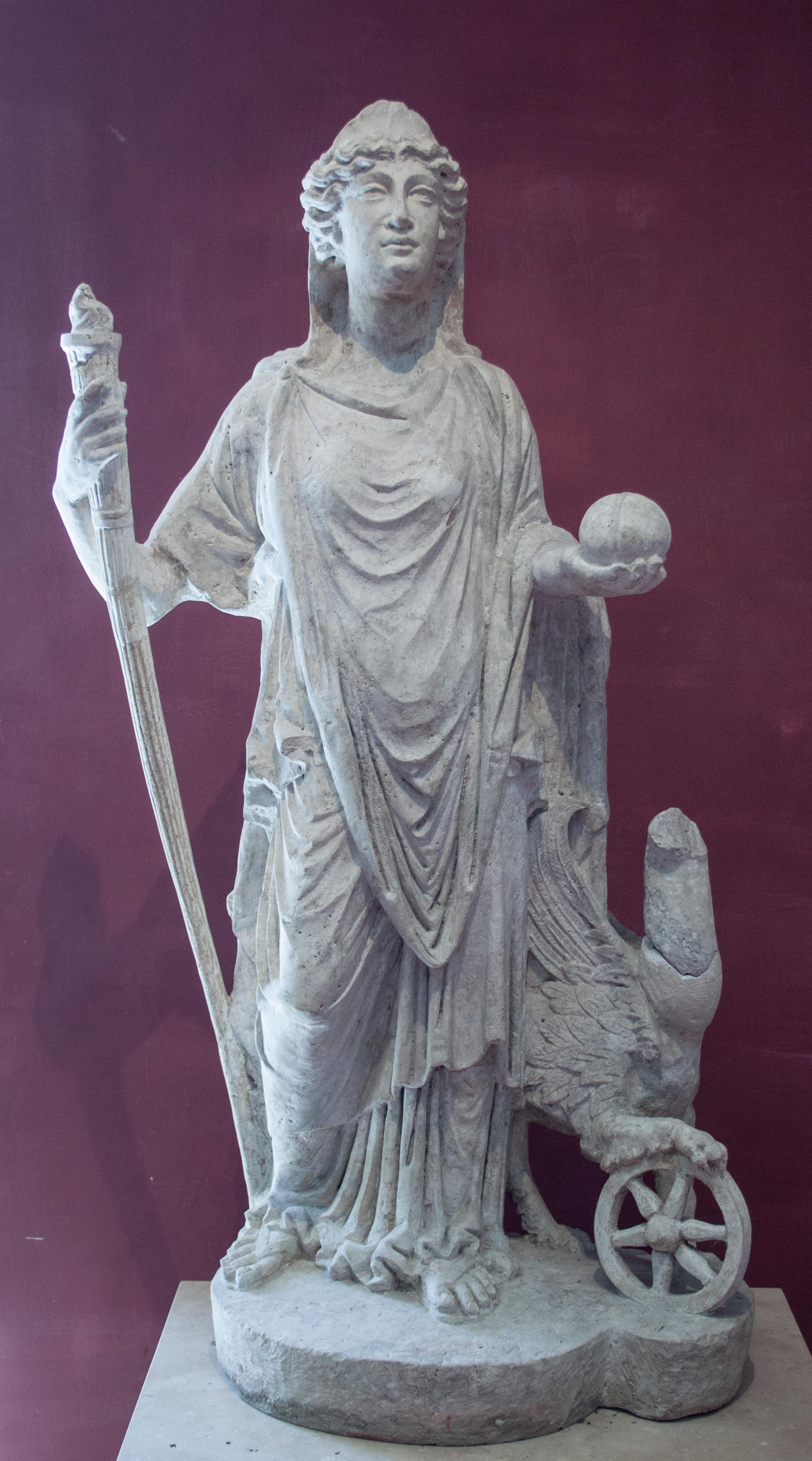 Statue of Fortuna Nemesis, the goddess of fate. She holds a flaming torch in her right hand and a globe representing the universe in her left. The griffon and the wheel with six spokes are her usual attributes. The statue was found in the shrine of the northern wing of the proconsul's palace.